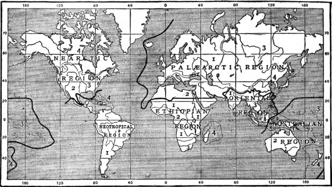 World map showing zoogeographical zones.